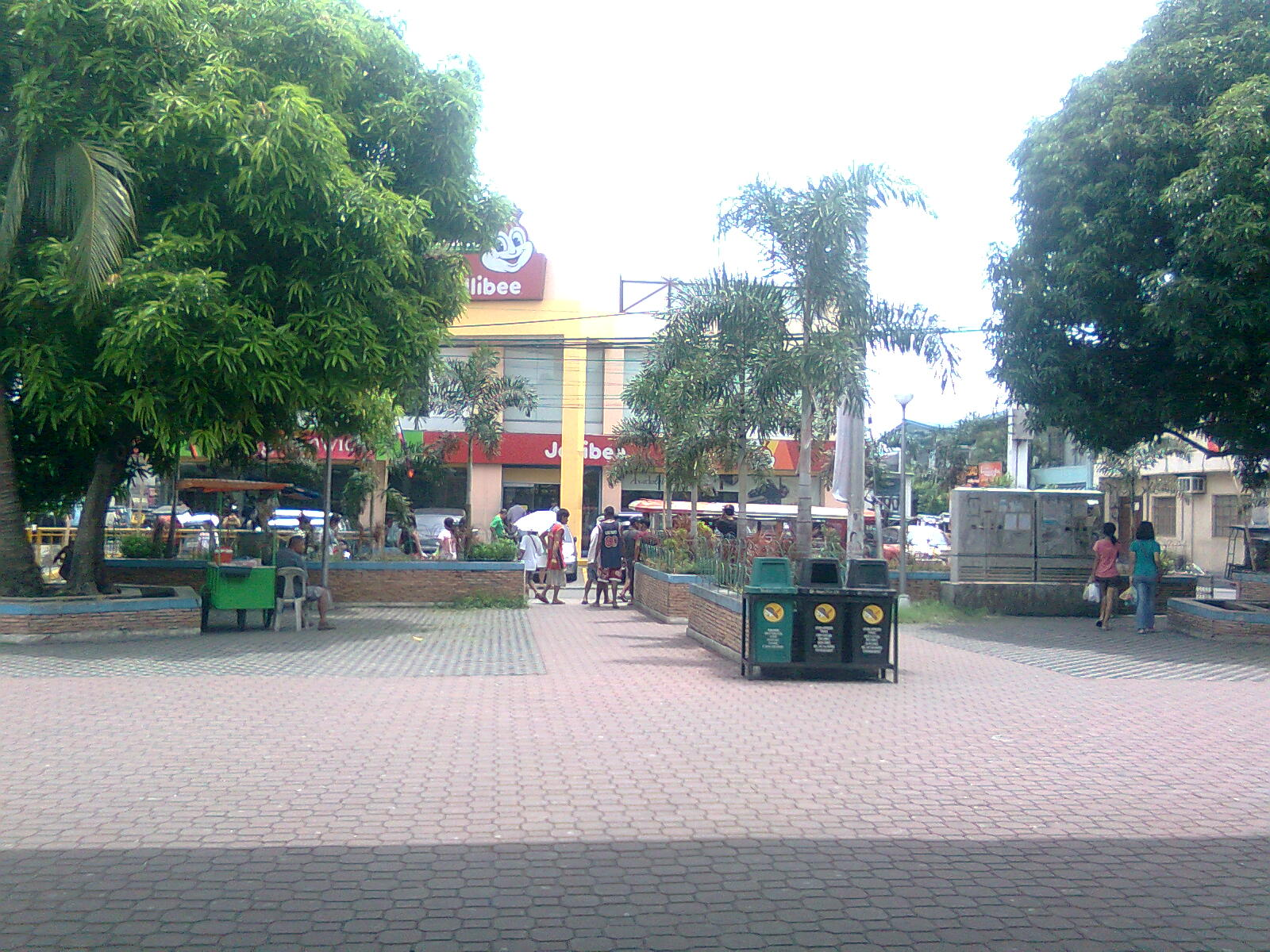 Brgy. Libis Plaza